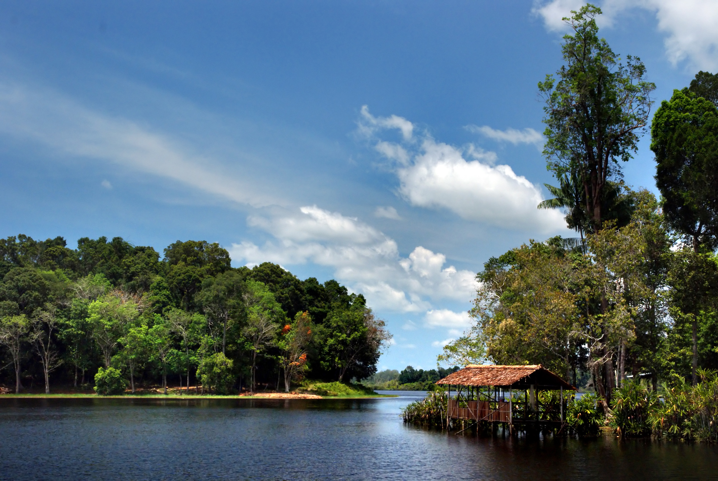 Tasek Merimbun (Translation: Merimbun Lake) Heritage Park’ is a wildlife sanctuary, a conservation spot for flora and fauna, a recreational center, and a venue for research and education. It is the first to be declared a national park in Brunei Darussalam. The 7,800-hectare park was also declared an ASEAN Heritage Park on 29 November 1984, marking a significant era in its history.